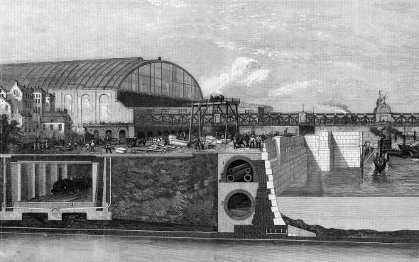 Cross section through the Victoria Embankment on the north side of the River Thames, showing, the Metropolitan District Railway, sewers and pipes buried in the embankment. Illustration also shows Charing Cross station and Hungerford Bridge. The embankment was constructed between 1865 and 1870.